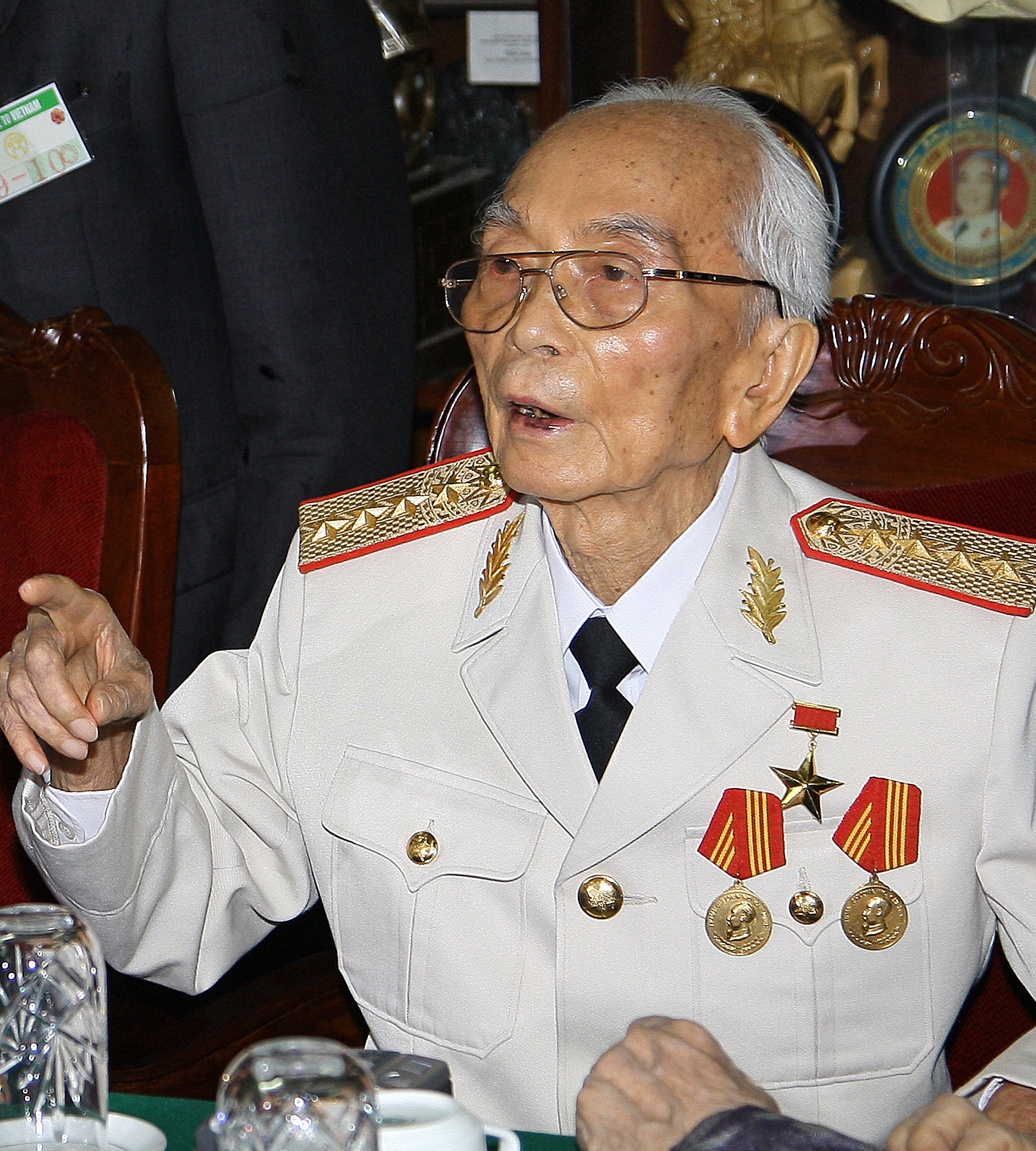 General Vo Nguyen Giap in 2008.